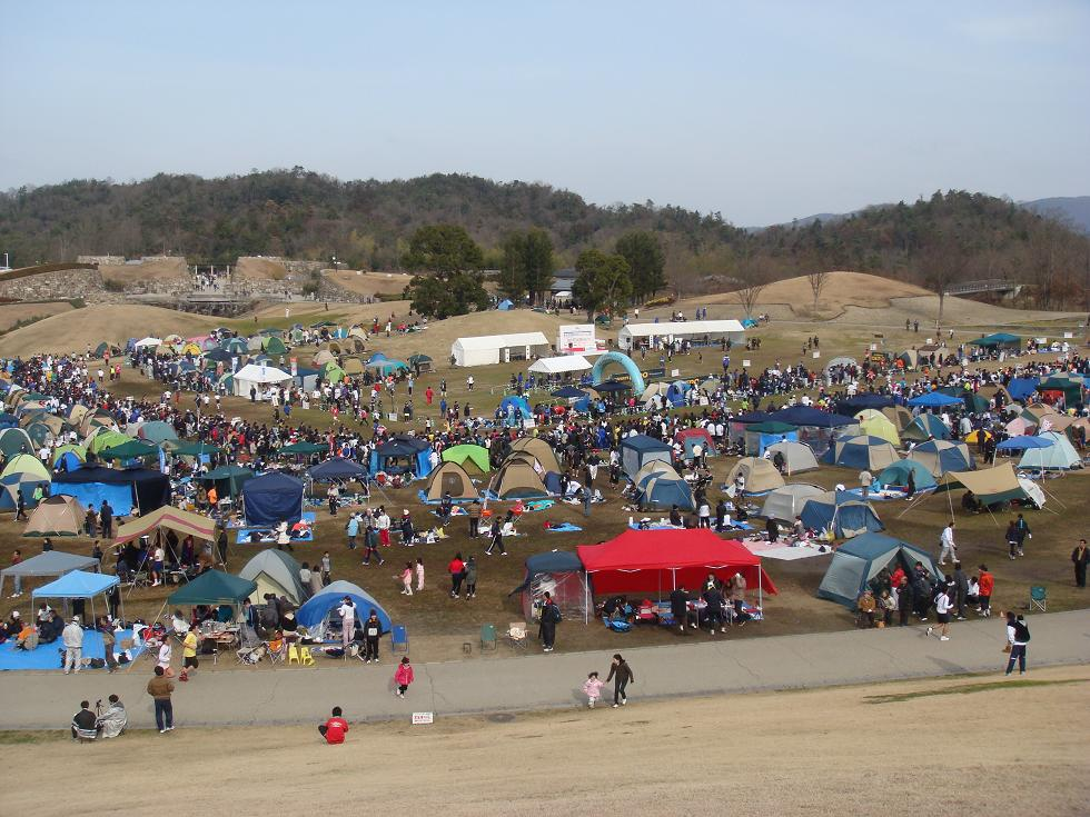 Mannou-relaymarathon